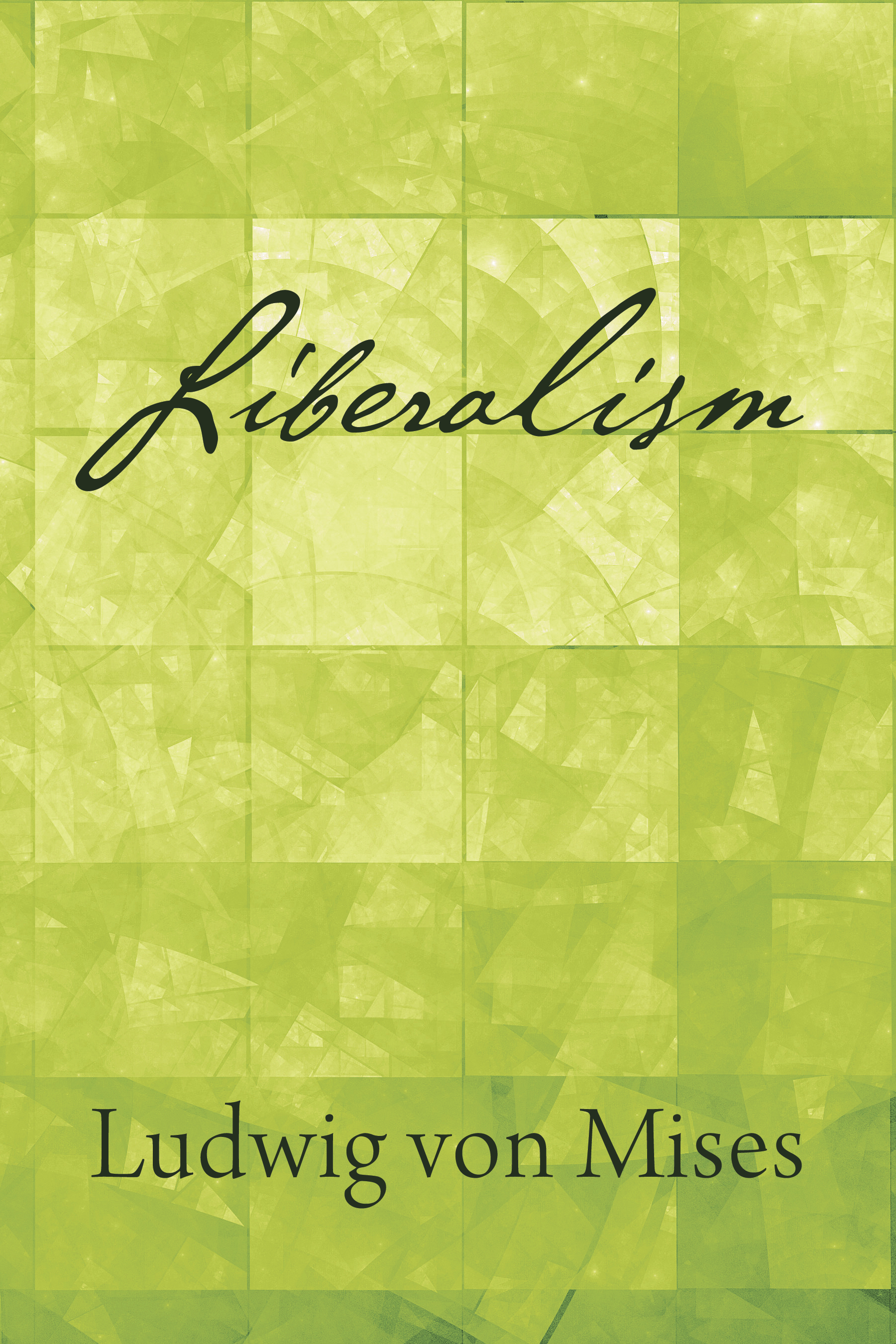 Cover of the 2002 edition of Liberalism by Ludwig von Mises